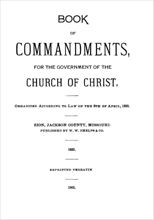 The title page of the 1903 edition of the Book of Commandments, later to be known as the Doctrine and Covenants, part of the open scriptural canon of several denominations of theLatter Day Saint movement.